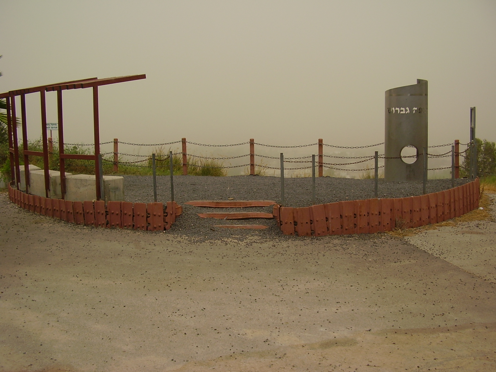 gavrosh lookout in kibbutz bet -alpha